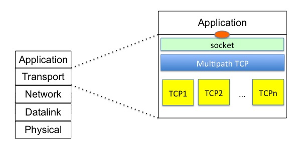 Description of Multipath TCP in the protocol architecture